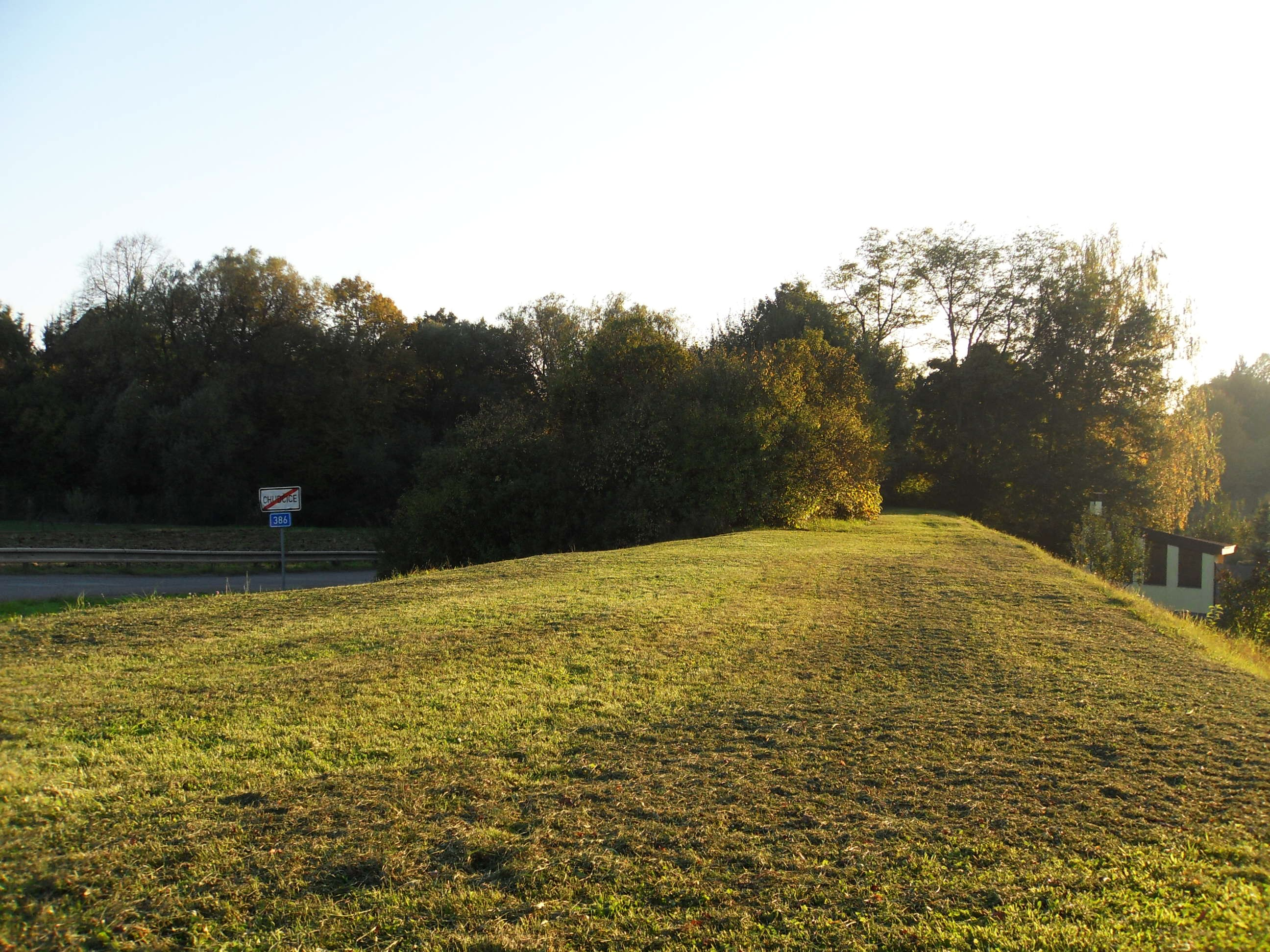 Former railway line Kuřim - Veverská Bítýška, Chudčice, Brno-venkov District, Czech Republic